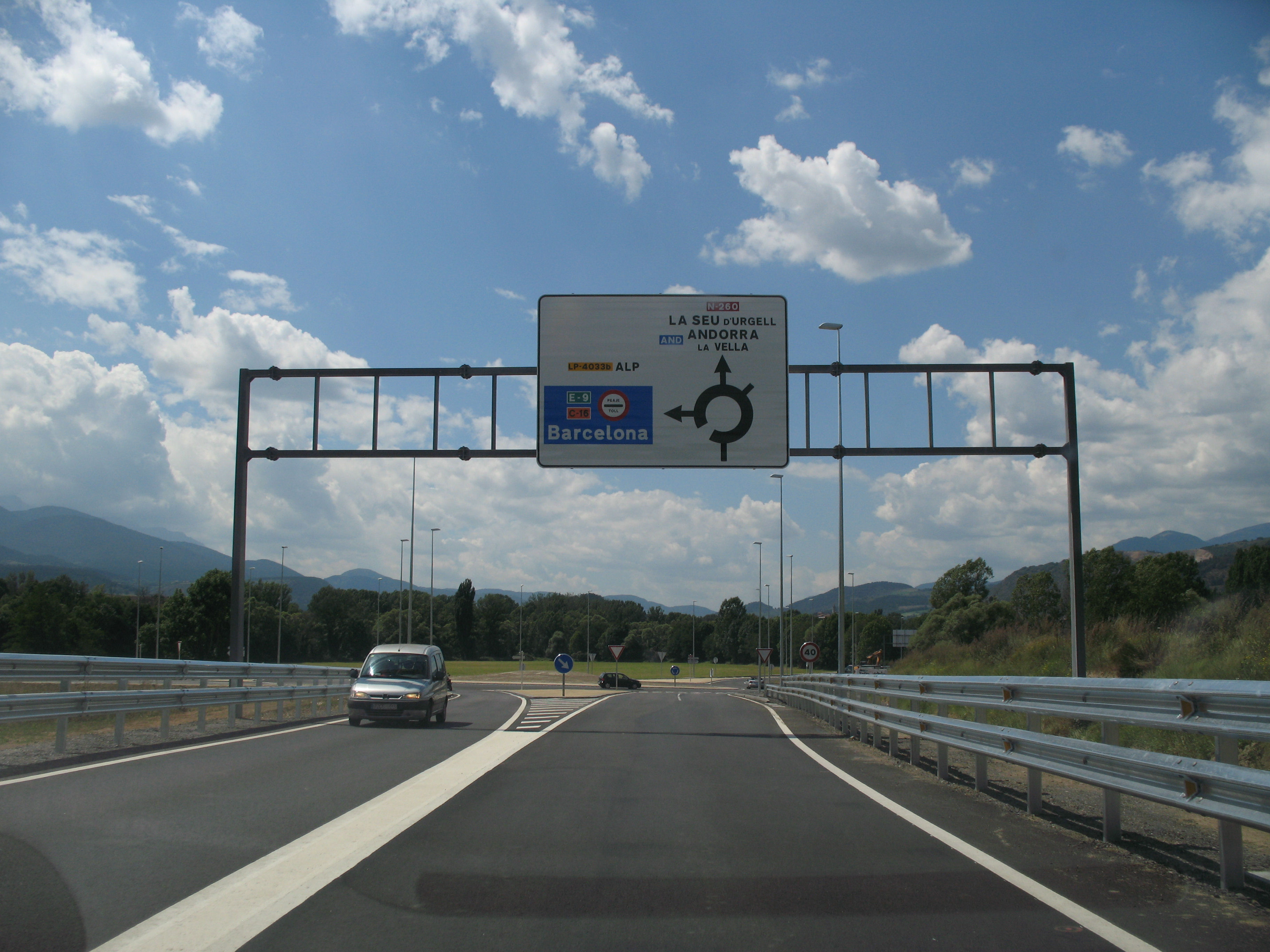 New roundabout between the N-260 and the catalan highway C-16.